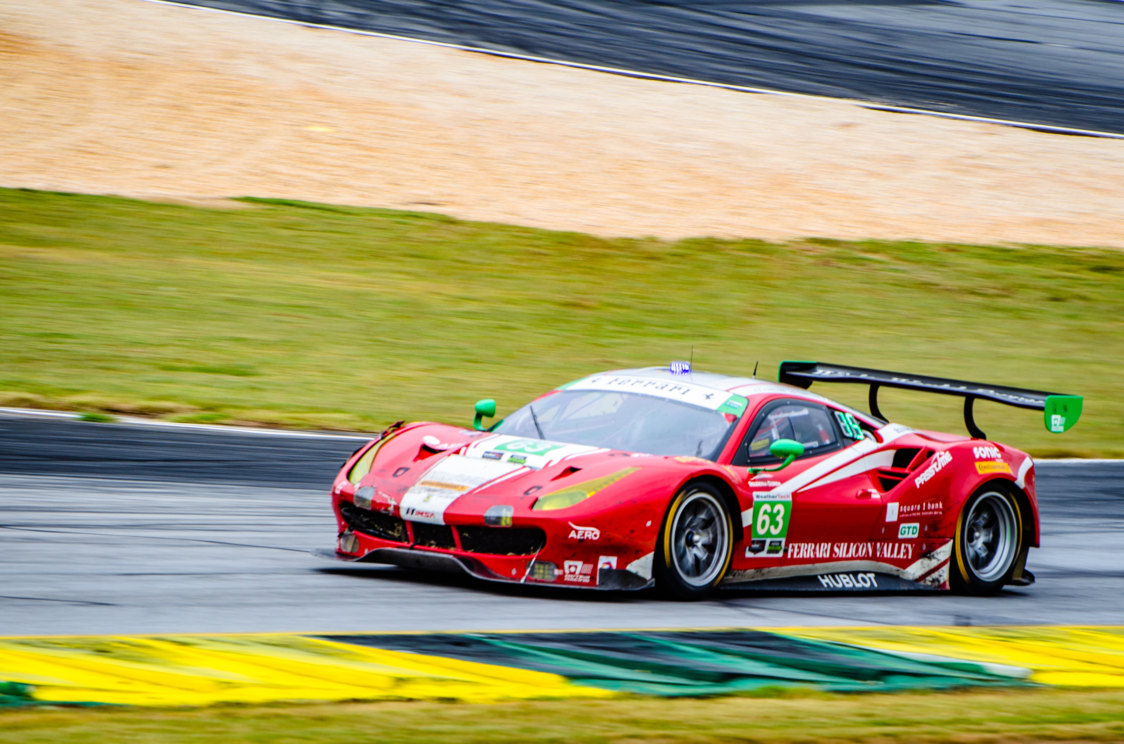 Scuderia Corsa - Ferrari 488 GT3 #63 Petit Le Mans 2017 - Road Atlanta Alessandro Balzan - Christina Nielsen - Matteo Cressoni